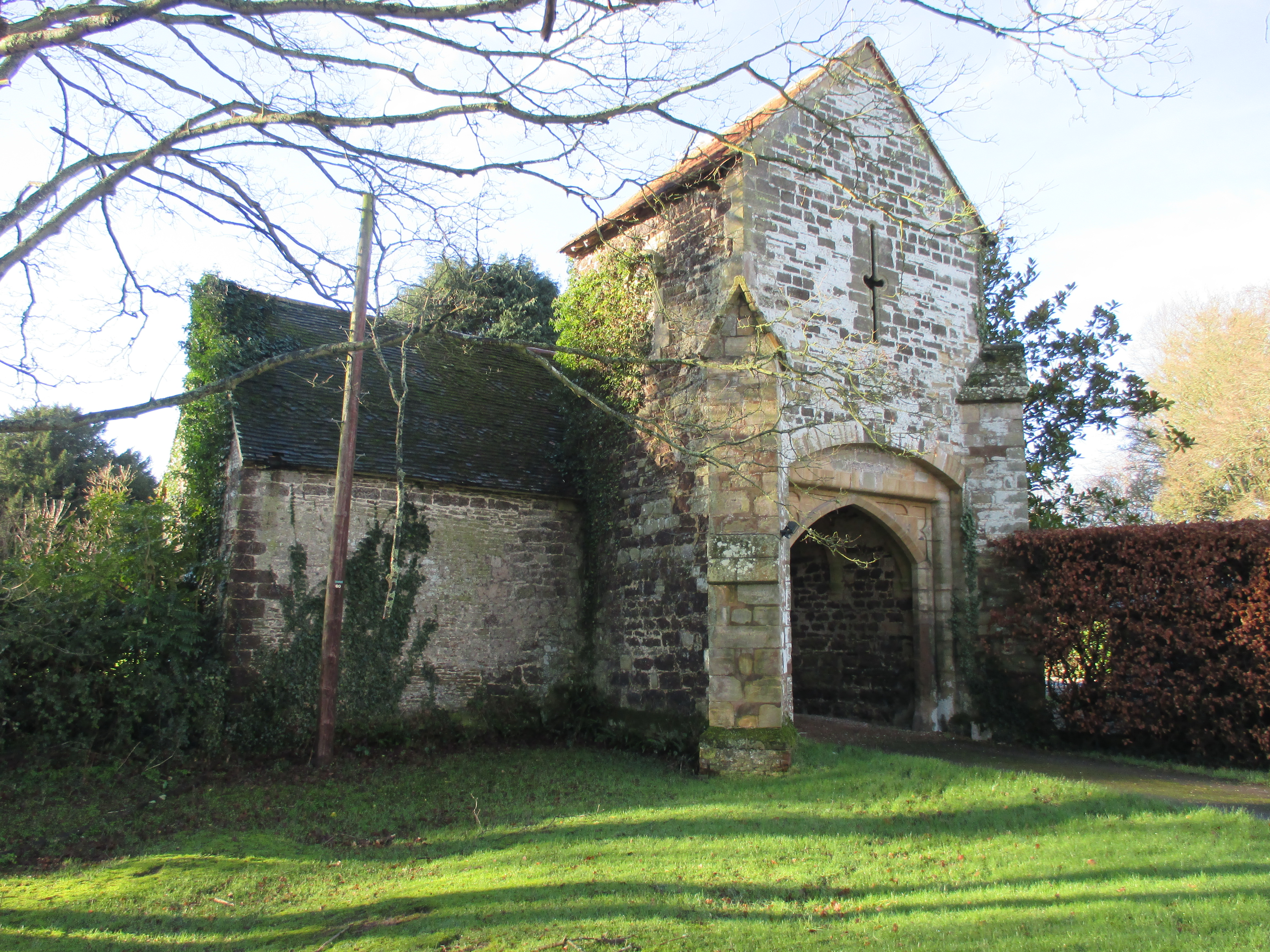 The gatehouse and porter's lodge of Ewhurst Manor, Shermanbury, West Sussex, photographed from the north-east.